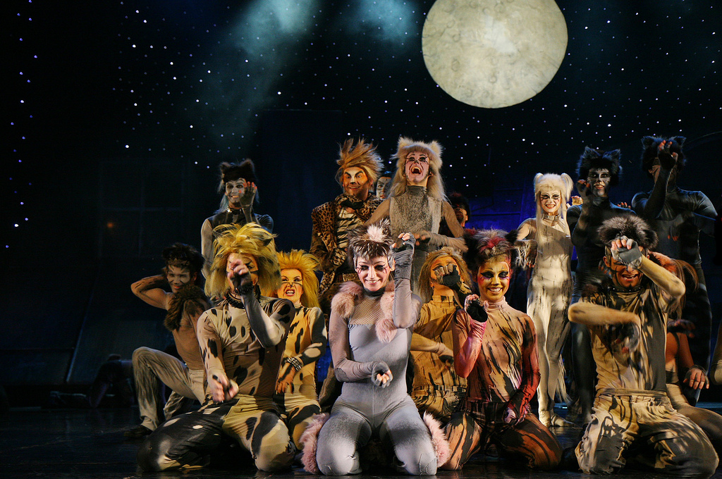 The musical "Cats" in Roma Musical Theatre in Warsaw, 8 December 2007.